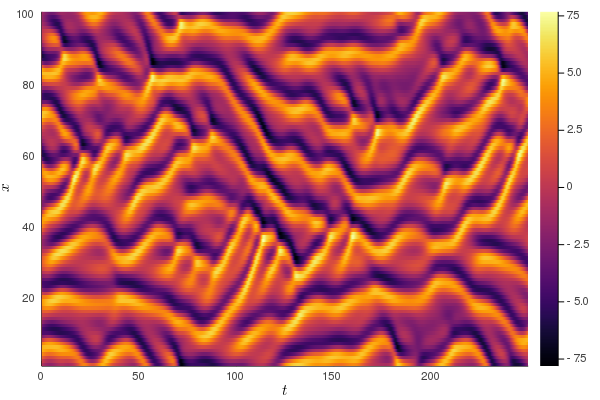 A spatiotemporal plot of the Kuramoto–Sivashinsky equation. The domain size is 100 and 64 Fourier modes are used for solving using the Julia solver in TimeseriesPrediction.jl.